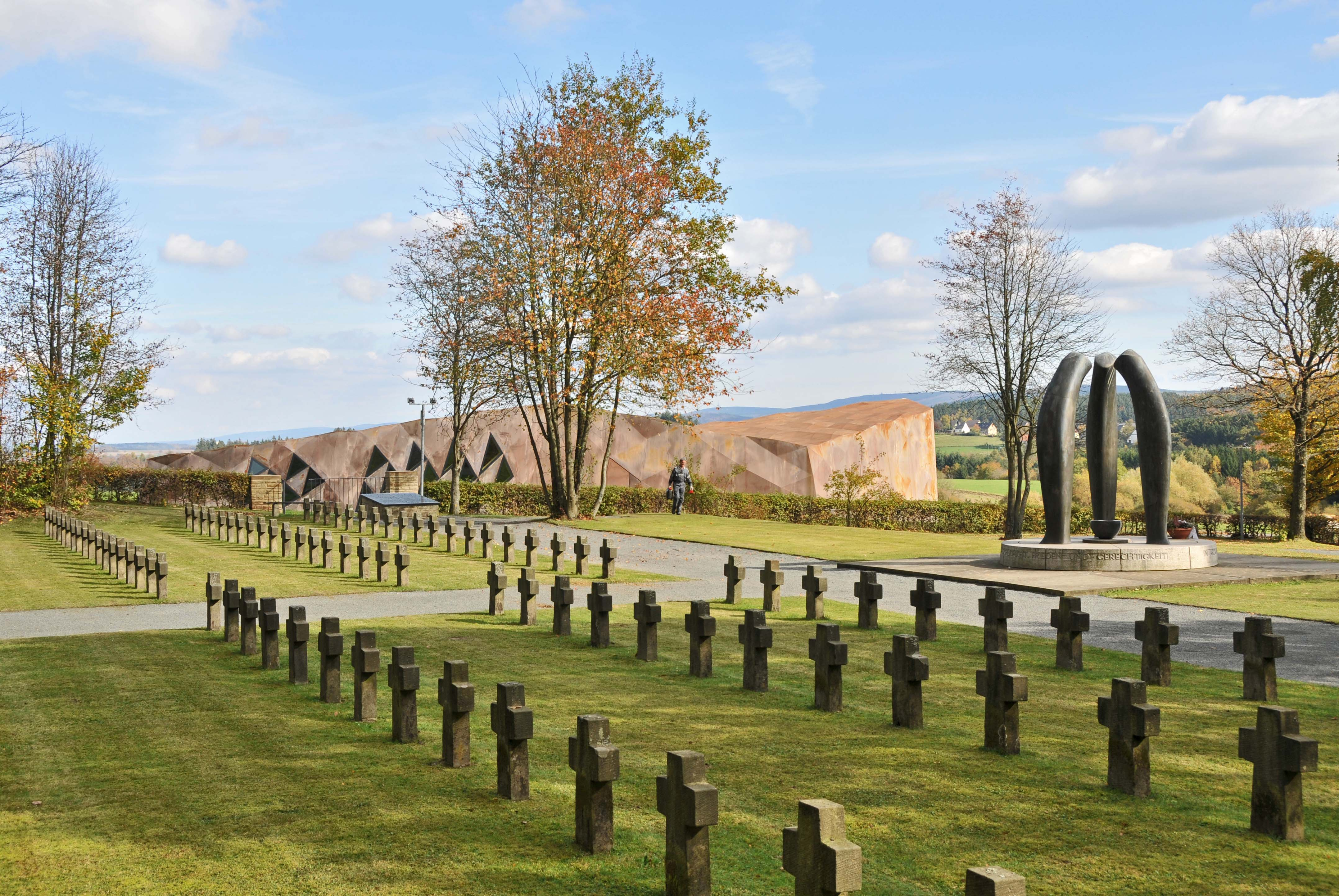 Memorial at the site of the 1940-1945 Nazi concentration camp at Hinzert, Germany. At the right: monument by Lucien Wercollier. In the background: the Documentation Center (de: Dokumentations- und Begegnungshaus).